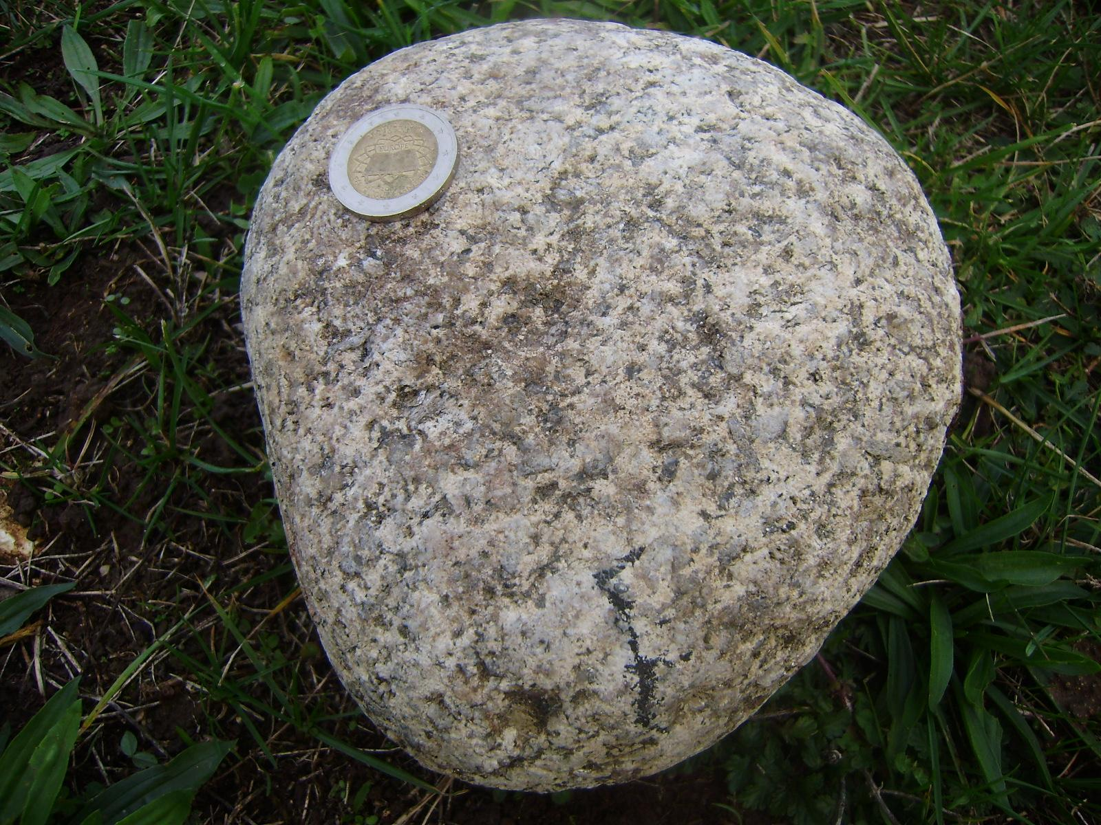 Saint-Saud leucogranite, coarse-grained facies. Boulder out from the Dronne river gravel.